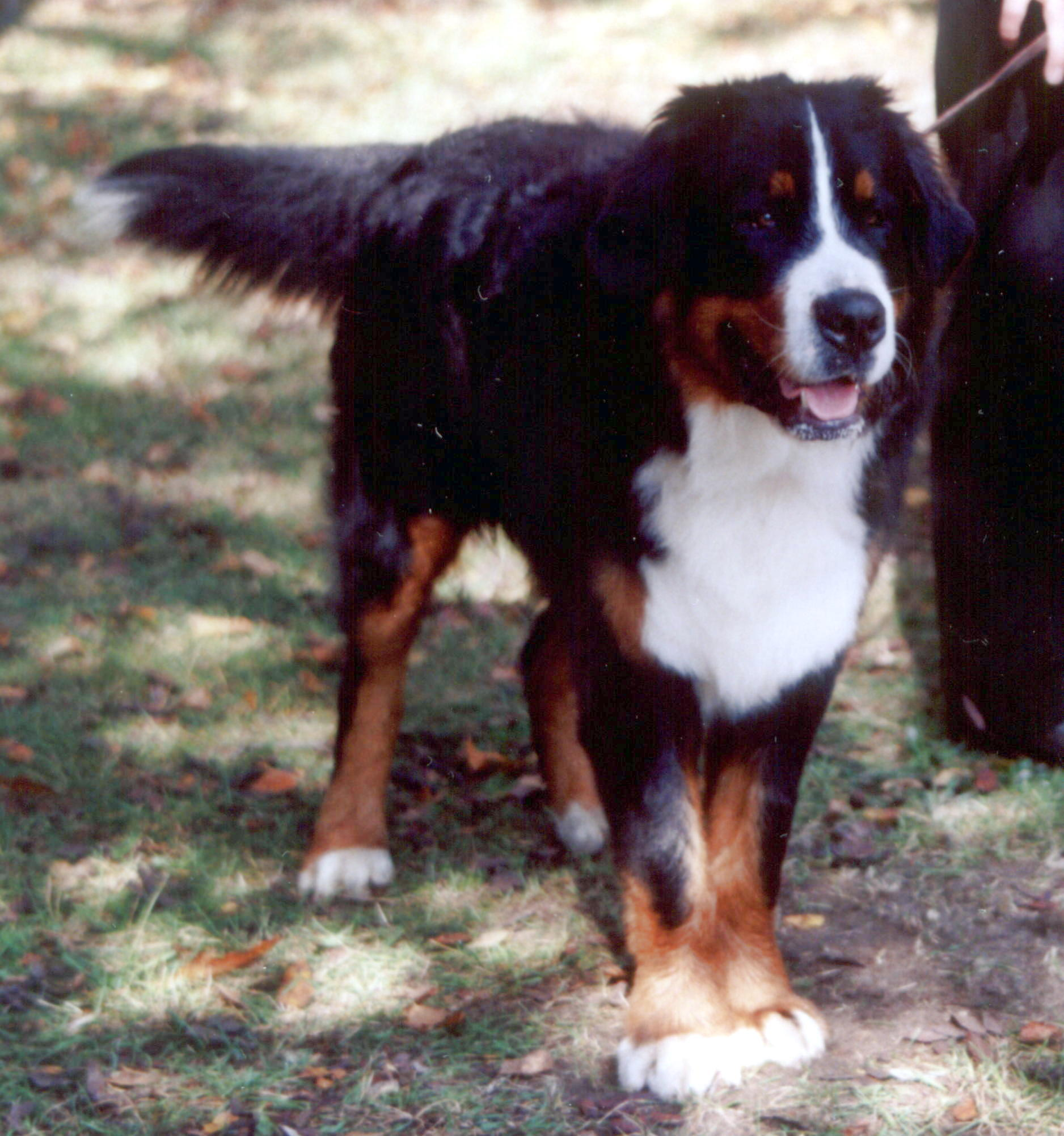 author: Pleple2000 19:33, 30 October 2005 (UTC)